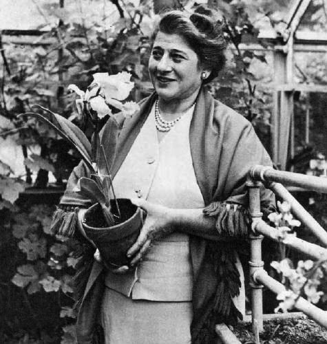 Photo of Gertrude Berg with one of her orchids in the greenhouse of her summer home.